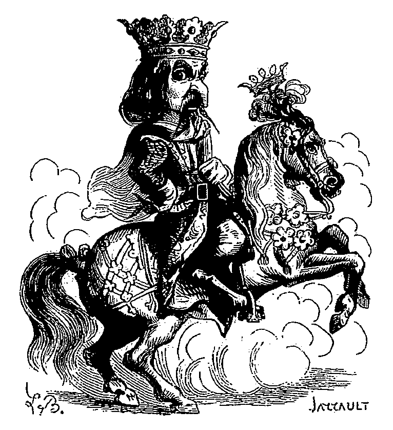 Berith, an illustration from the "Dictionnaire Infernal" by Jacques Collin de Plancy.